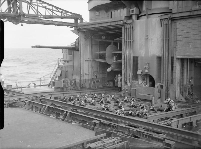 The Royal Navy during the Second World War Men of HMS KING GEORGE V training for a possible landing party. The aircraft hangars on board the battleship can be seen in the background. Inside one of them the tail of the Supermarine Walrus aircraft can be seen.